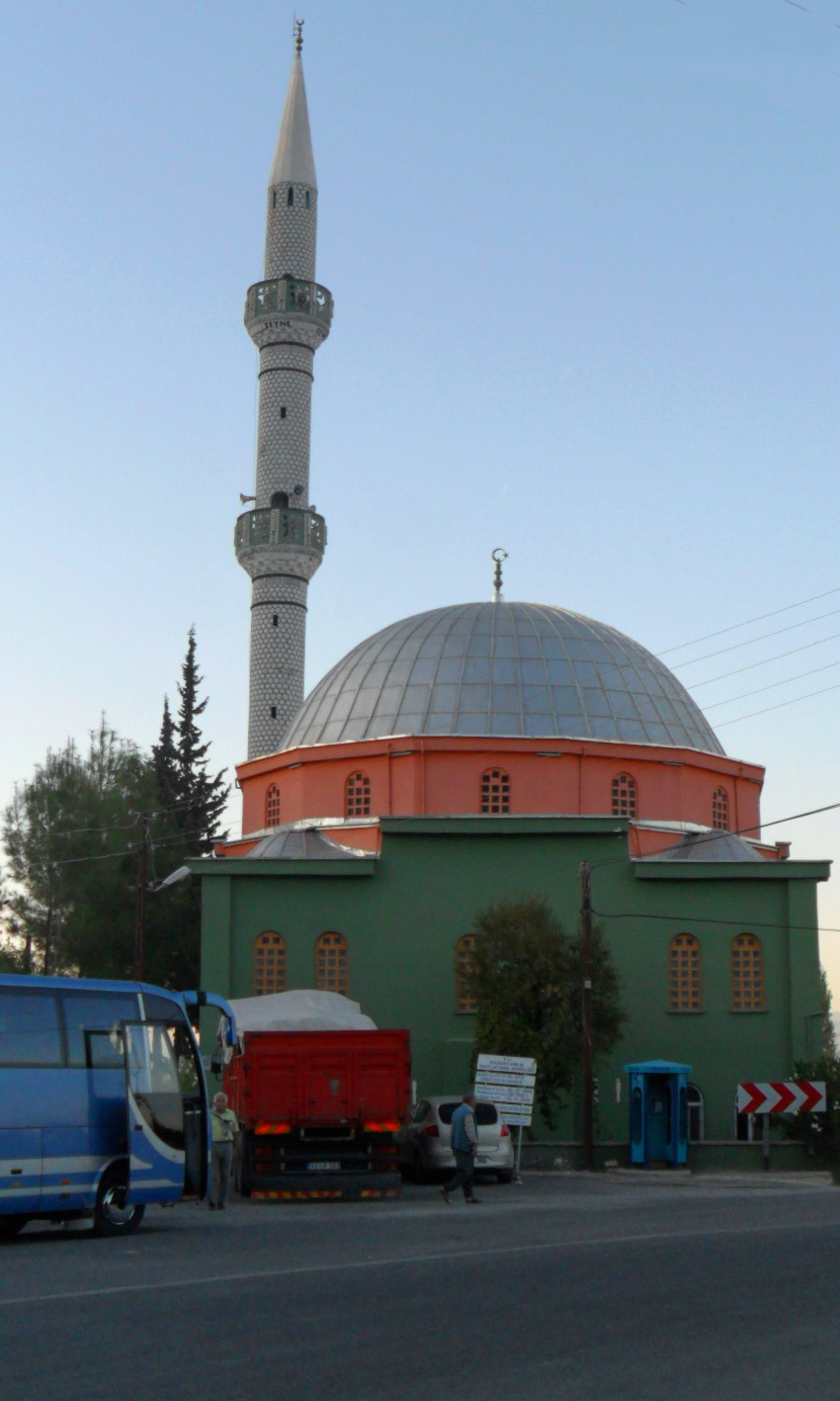 Zeyne